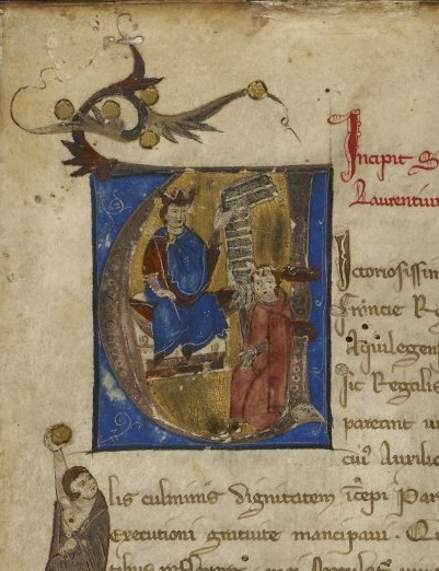 Lawrence of Aquilegia is depicted with Philip the Fair, King of France. The script is closer to a documentary hand than to a book hand. The text was composed in Paris during the papacy of Boniface VIII.